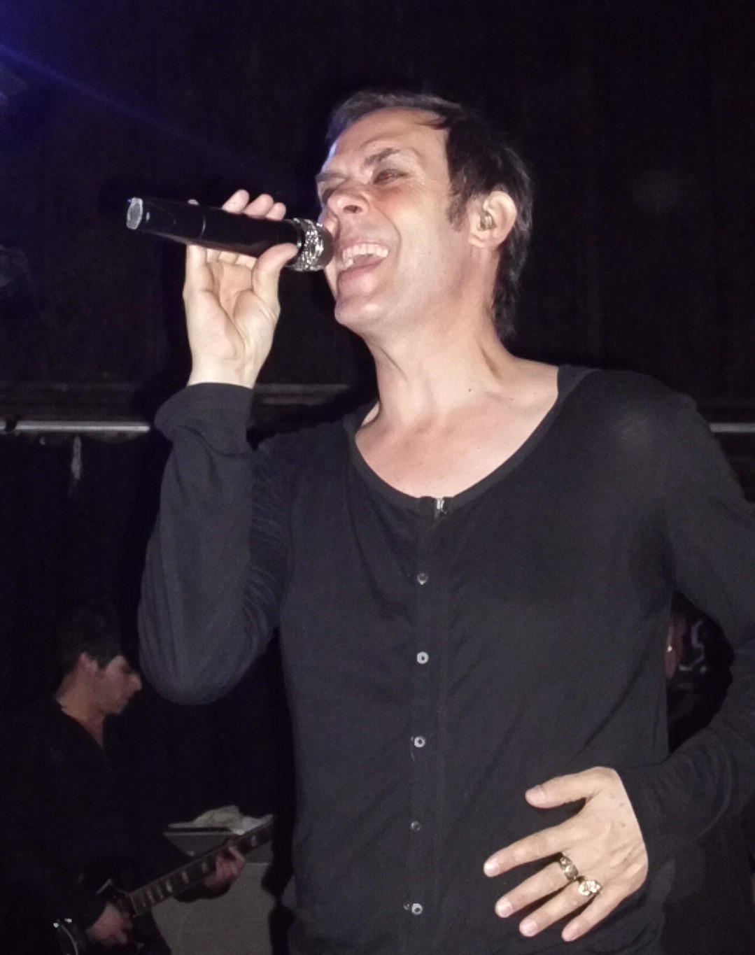 Peter Murphy, former lead singer of Bauhaus, performing at Reggie's Rock Club in Chicago